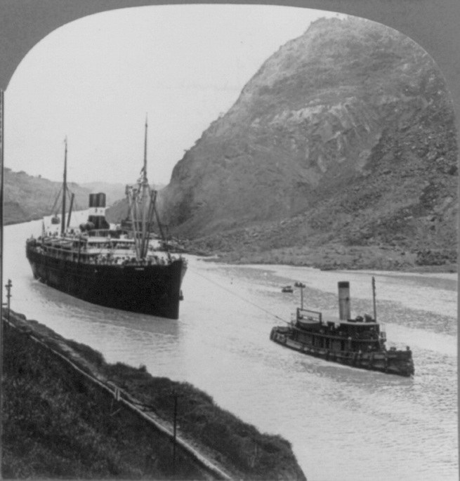 SS Panama in Culebra Cut on Sunday, Feb. 7, 1915 – the first excursion through the Panama Canal. The ship was built in 1899 as Havana, renamed Panama in 1905 and renamed Aleutian in 1926. She was wrecked in Alaska in 1929.